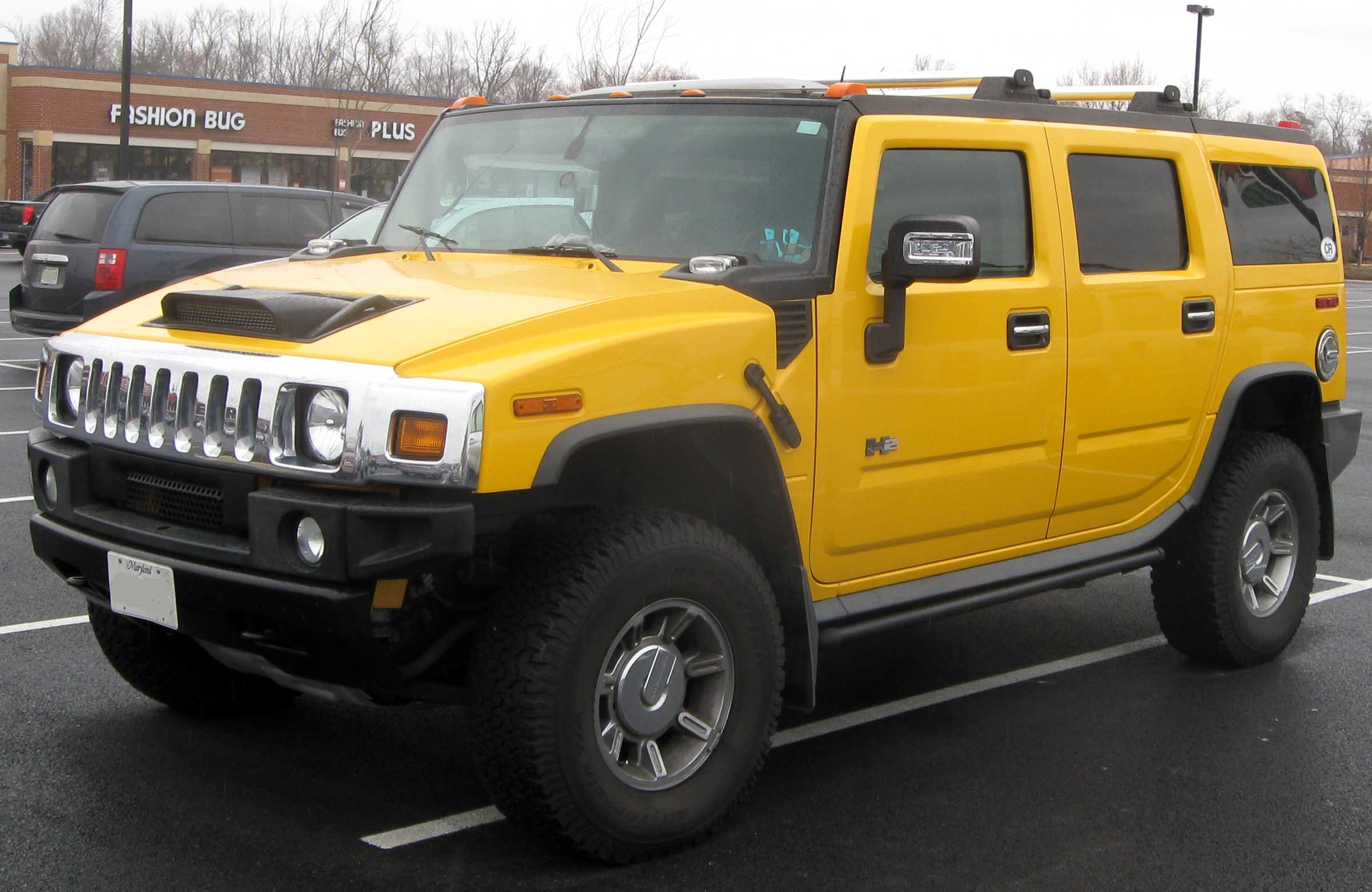 Hummer H2 photographed in Waldorf, Maryland, USA.